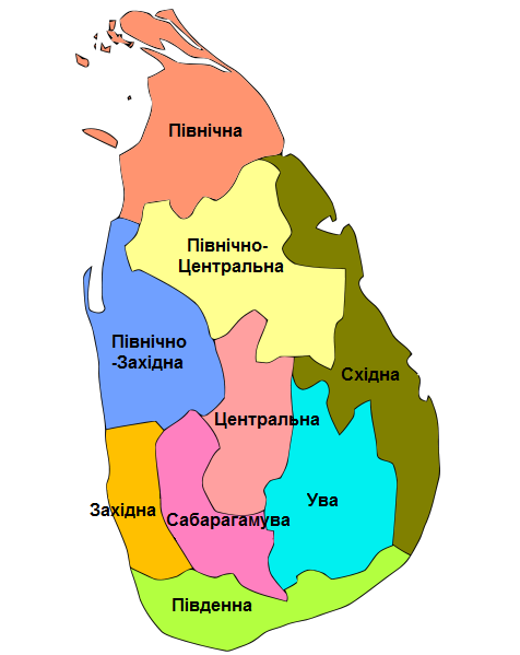 Provinces of Sri Lanka. SVGed version of Sri Lanka provinces.png (Original by Rarelibra and QuartierLatin1968, based on public domain sources.)